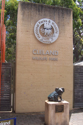 Cleland Wildlife Park Entrance